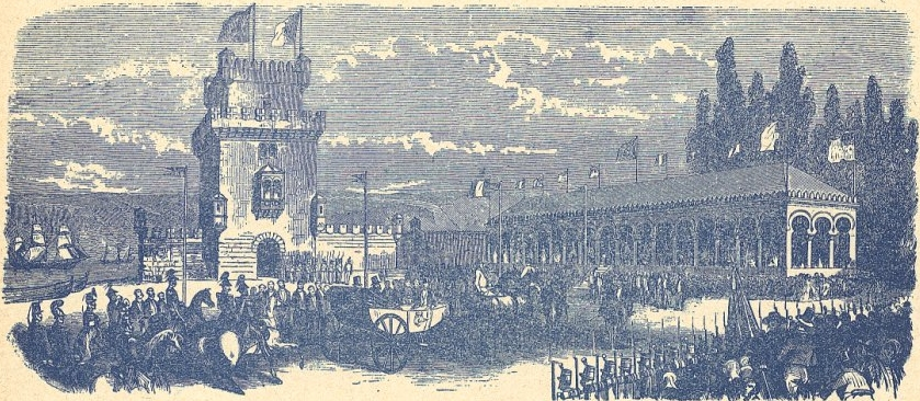 Inauguration of the works on the first project to a railway connection between Lisbon and Sintra, in Portugal, in 1885. This line was supposed to start from near the São Paulo Fort (that was demolished and replaced by the D. Luís Plaza), and follow the Tagus River until Algés, from where it would go to Sintra, using part of the valley of the Algés River. This project was cancelled, and a new line to Sintra was completed in 1887. Parts of the course of the old line are very similar to the ones used by the Sintra and Cascais Railways. This image was originally published in the Gazeta dos Caminhos de Ferro No. 1105, of the 1st January 1934, and scanned by the Hemeroteca Municipal de Lisboa.